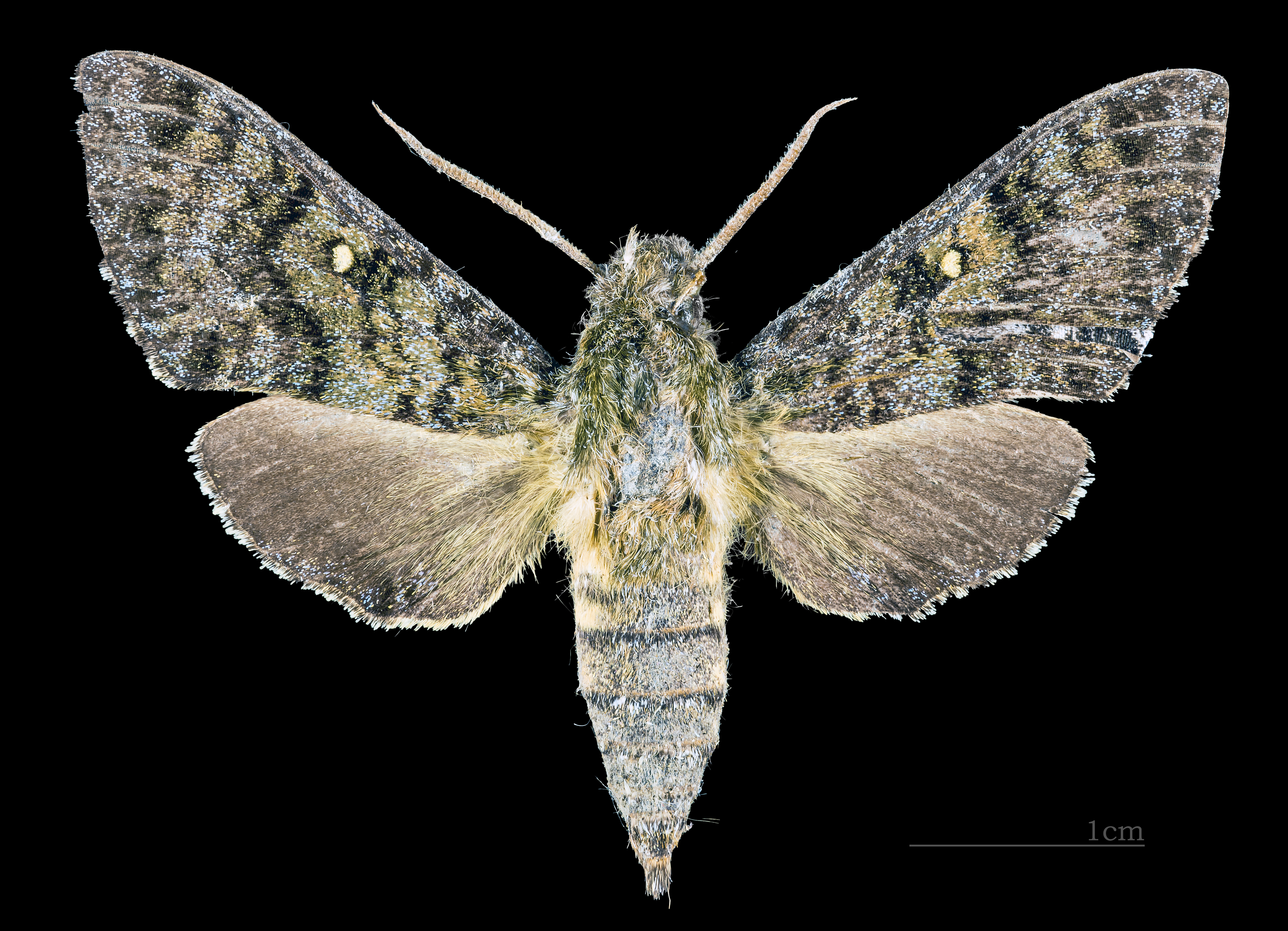 Pseudodolbina fo - Dorsal side Collection of the Mathematician Laurent Schwartz